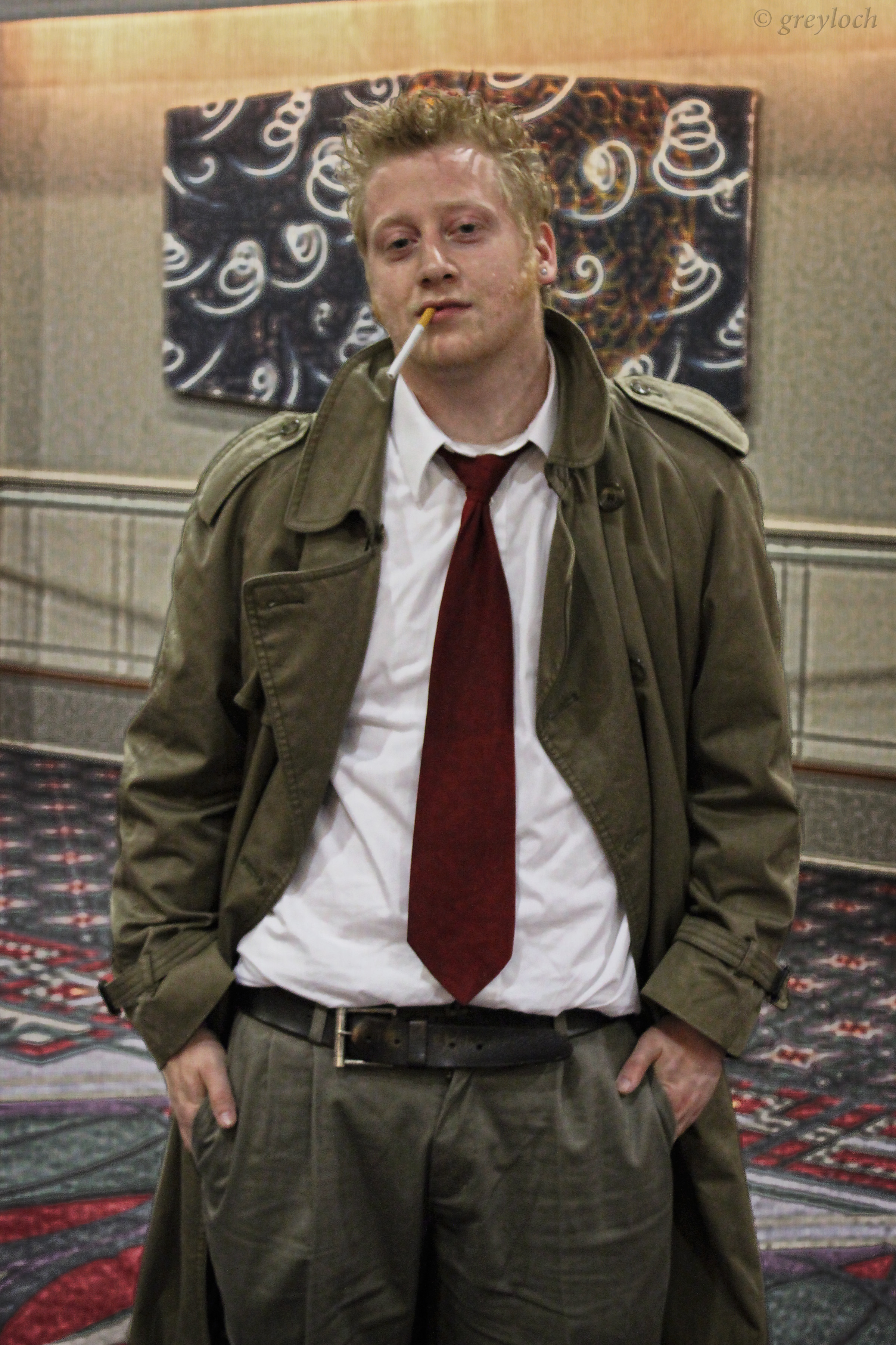 A cosplayer in Hellblazer (also known as John Constantine, Hellblazer) costume in Philadelphia Comic-Con 2012.